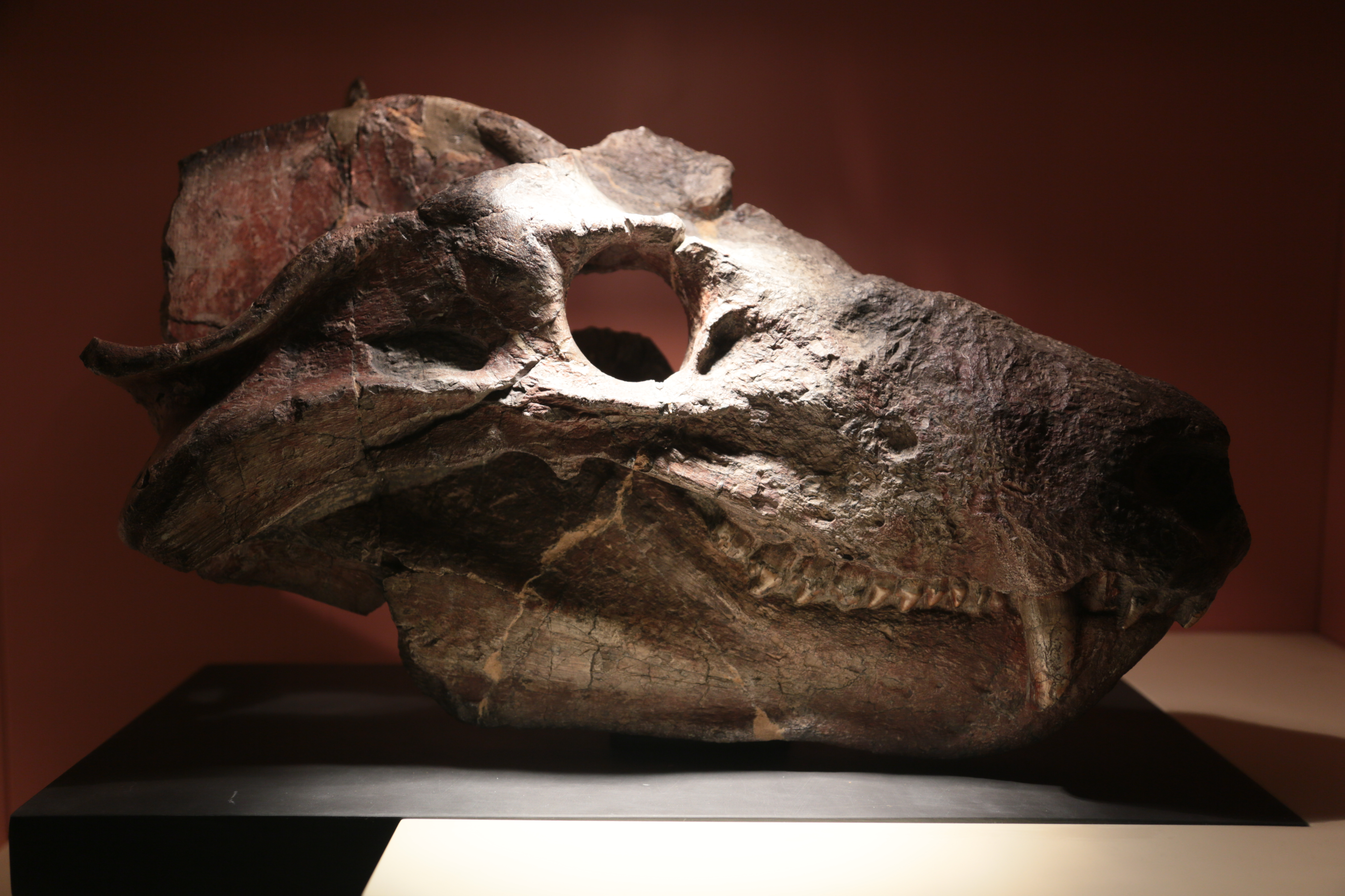 Cynognathus, Natural History Museum, London, Mammals Gallery